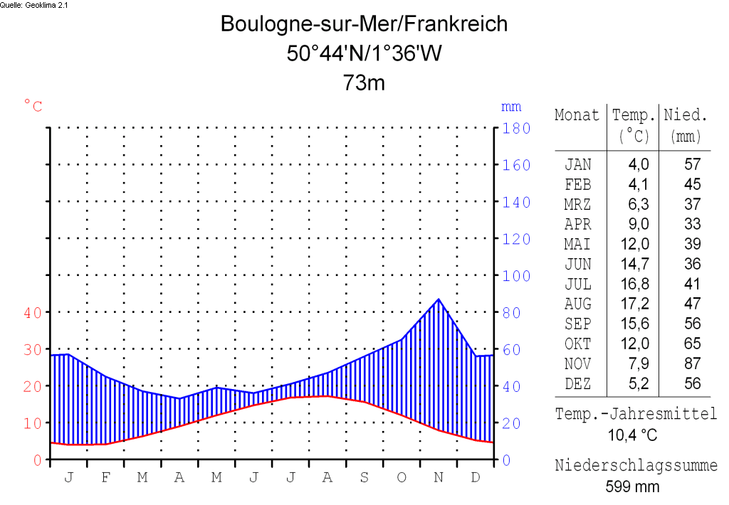 climate chart in the format by Walter and Lieth, metric, °Celsisus and millimeters, made with Geoklima 2.1